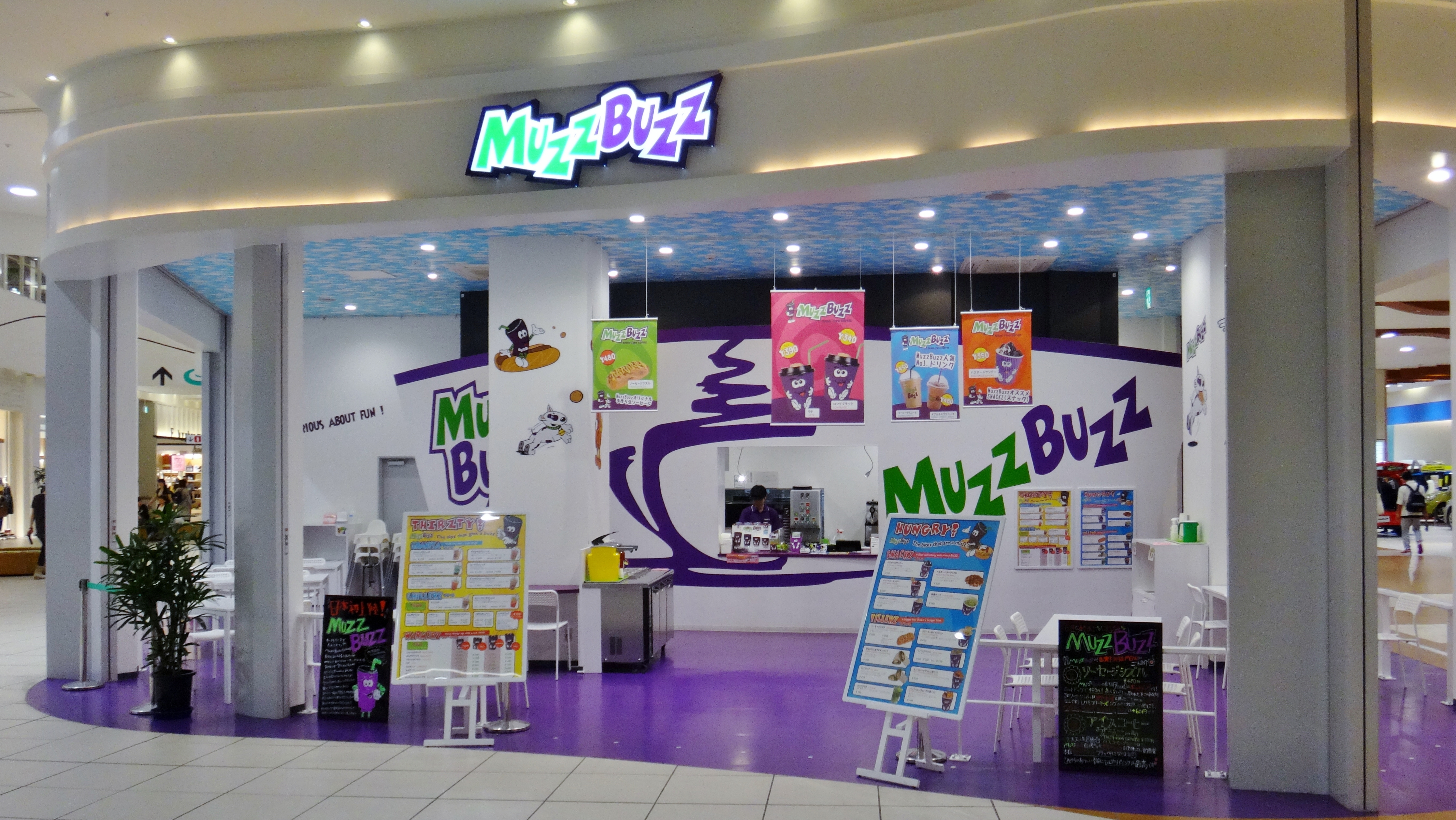 The first Muzz Buzz coffee outlet in Japan, inside the "Mori" zone of the Aeon LakeTown shopping mall in Saitama Prefecture, Japan (Opened in March 2015, closed in January 2016)